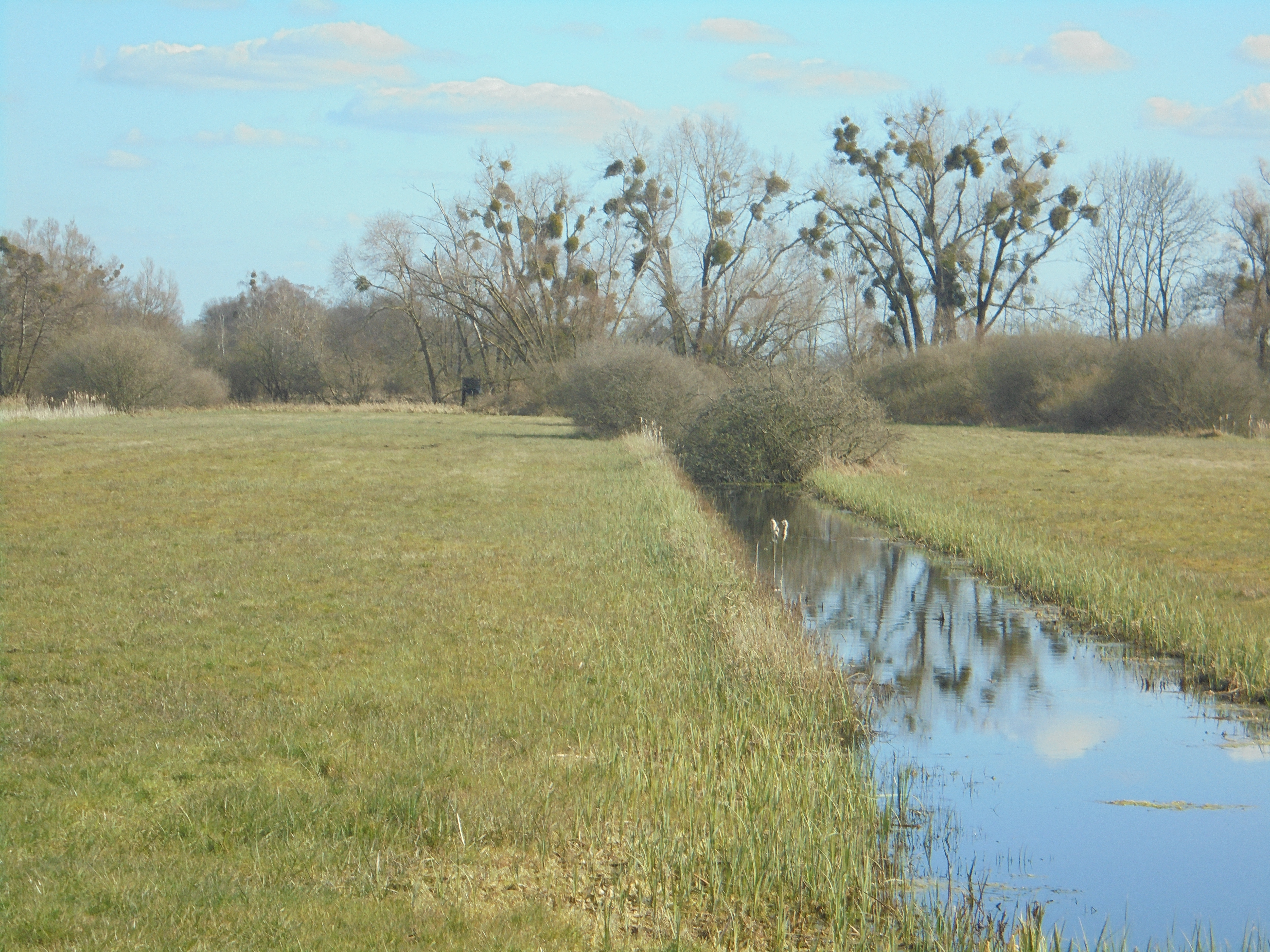 Nature Reserve Nördlicher Drömling near Rühen, Lower Saxony